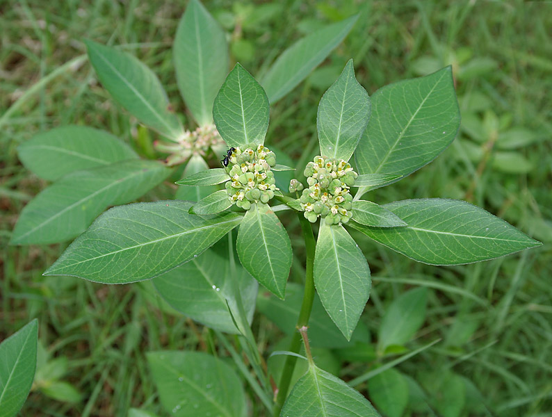 Painted Euphorbia Euphorbia heterophylla in Hyderabad , India.